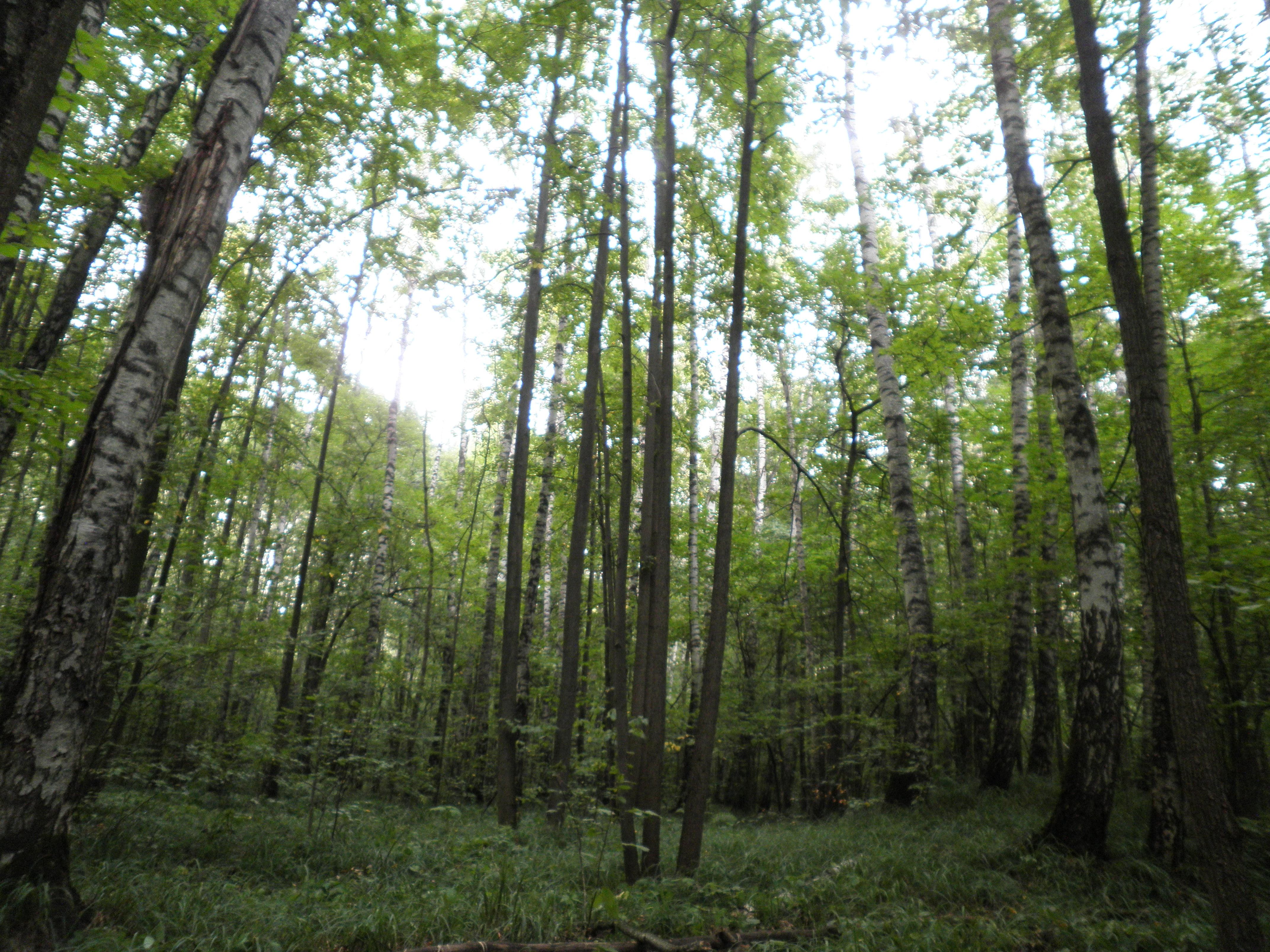 Bitsevski Park in 2010